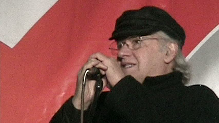 Eduardo Carrasco in 2009